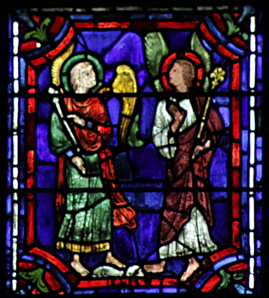 Fragment of File:Chartres 36 -Corrected.jpg - Row 09 : Panel 26 - Celestial Hierarchy V - Virtues.